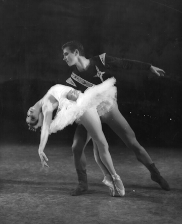 David Adams and Marilyn Barr in Swan Lake